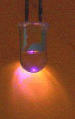 violet LED excites yellow daylight fluorescent paint